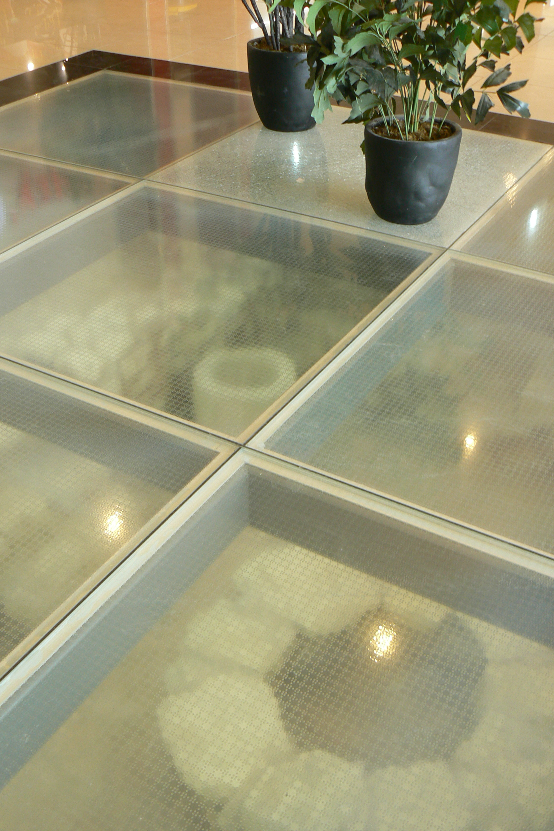 Be'er Sheva centreal bus station